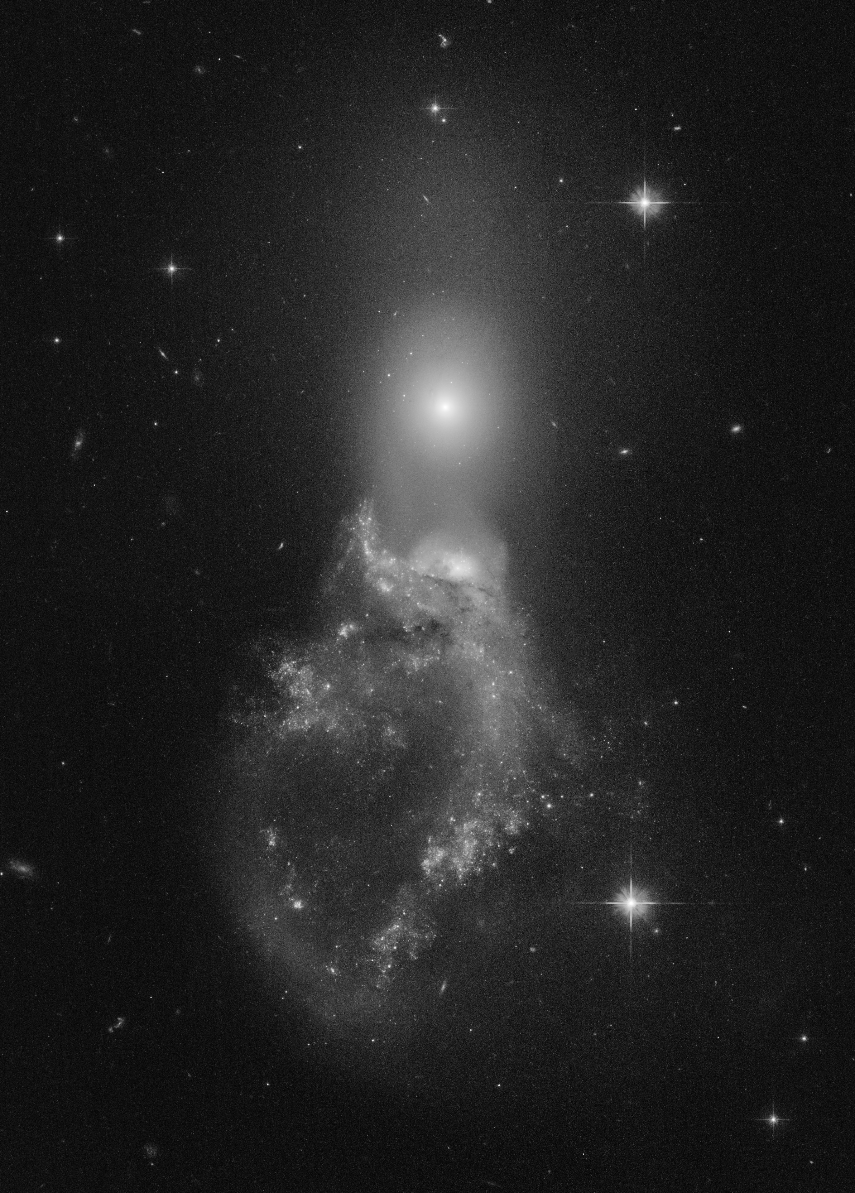 A golden egg floats above its pedestal. Here an assumed spiral galaxy has been strangely transformed in a way that makes it difficult to recognize. Its nucleus is now off center—way off center—and its arms are disorganized, forming a kind of irregular ring. The golden egg is an elliptical galaxy which is the major participant in this process. Turned 90° clockwise I think the composition looks remarkably like a phoenix with its egg. Some color data is available from the PanSTARRS survey: Data from the following proposal is used to create this image: Establishing HST's Low Redshift Archive of Interacting Systems All channels: ACS/WFC F606W North is 2.49° counter-clockwise from up.